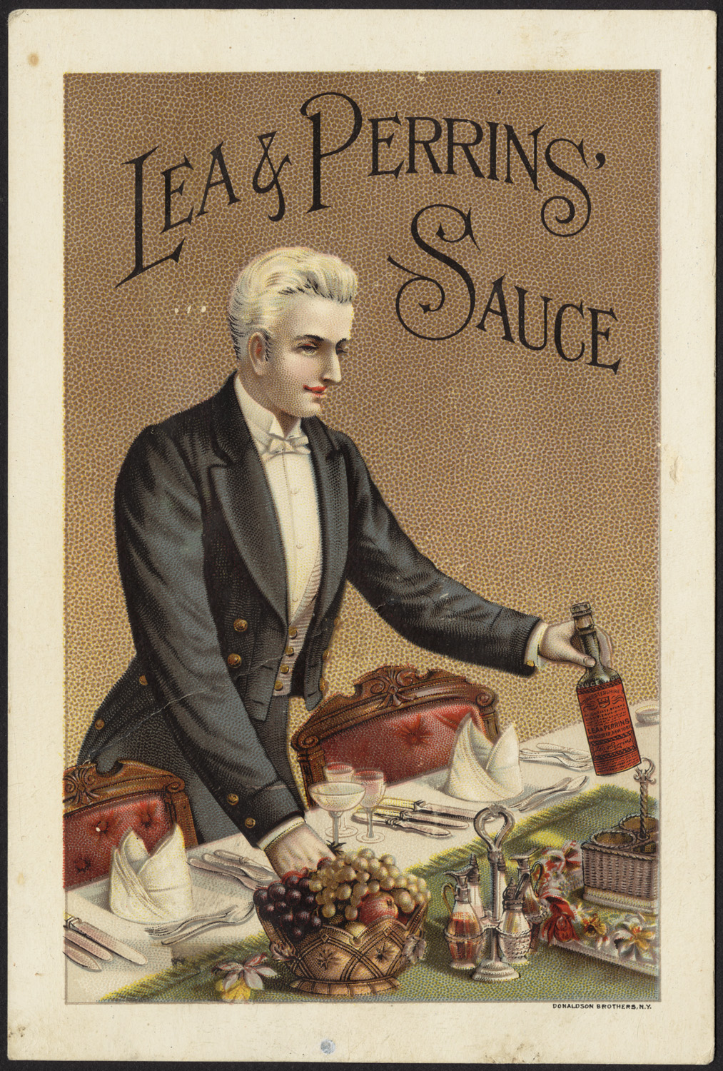 File name: 10_03_000008a Binder label: Food Title: Lea & Perrins' Sauce [front] Created/Published: N. Y. : Donaldson Brothers Date issued: 1870 - 1900 (approximate) Physical description: 1 print : chromolithograph ; 15 x 10 cm. Genre: Advertising cards Subject: Condiments; Men; Fruit Notes: Title from item. Statement of responsibility: John Duncan's Sons Collection: 19th Century American Trade Cards Location: Boston Public Library, Print Department Rights: No known restrictions.